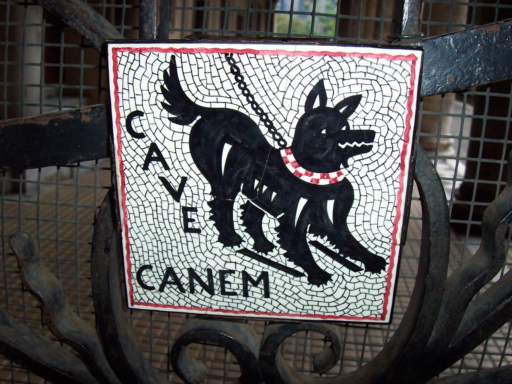 Italian sign ("Cave canem]")